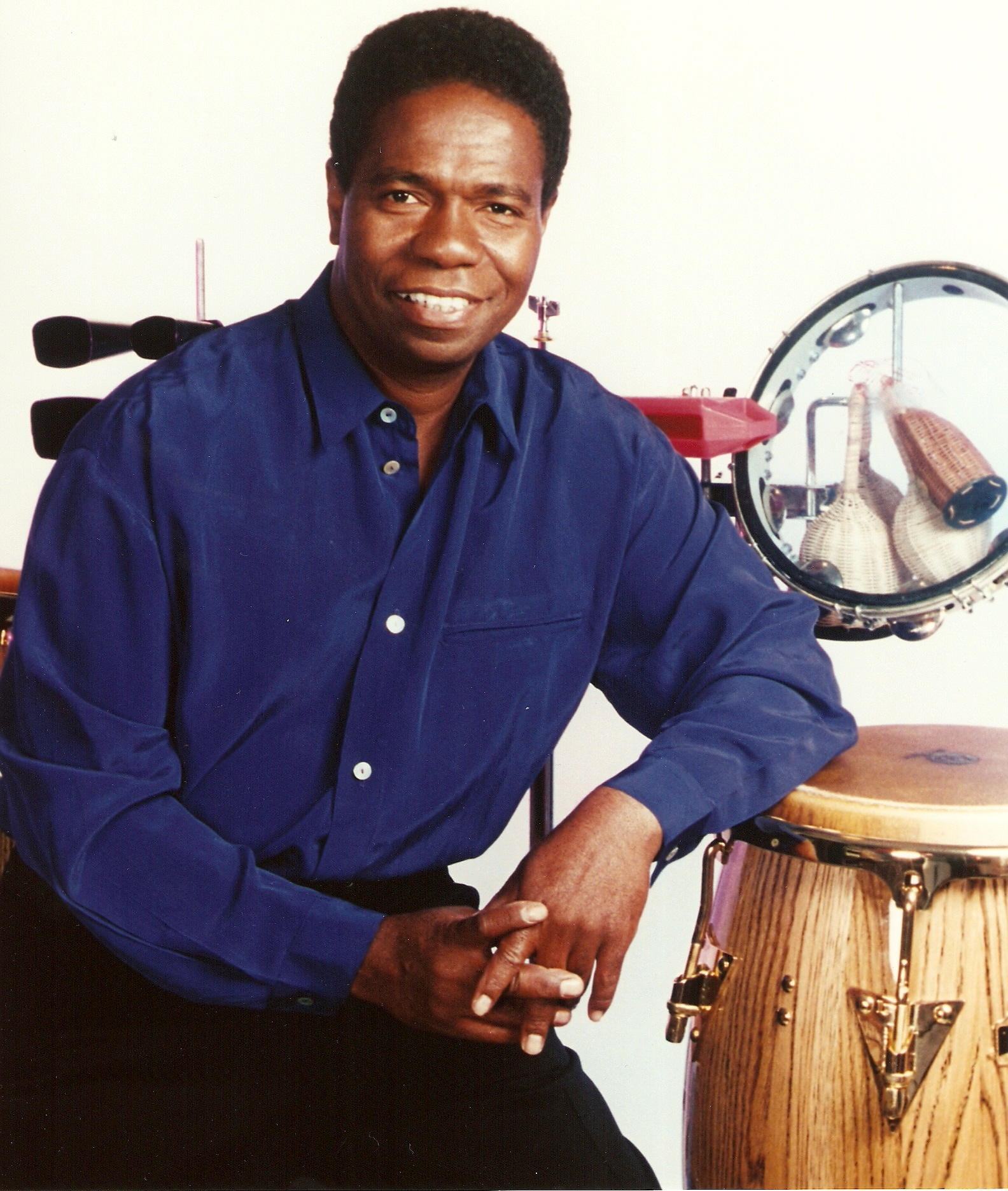 Paulinho da Costa with percussion instruments